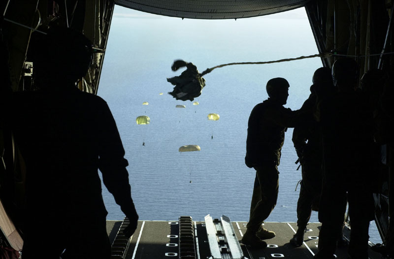 Details: SHOALWATER BAY TRAINING AREA, Australia, May 15, 2001 -- Soldiers from the 1st Commando Company, Sydney, Australia, parachute with their inflatable boats from an RAAF C-130H into Shoalwater Bay. This will be the beginning of four days of joint field training with the U.S. Army.